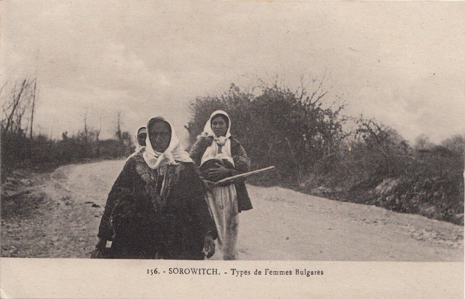 Surovichevo Bulgarian Women 1916 - 1918 Postcard